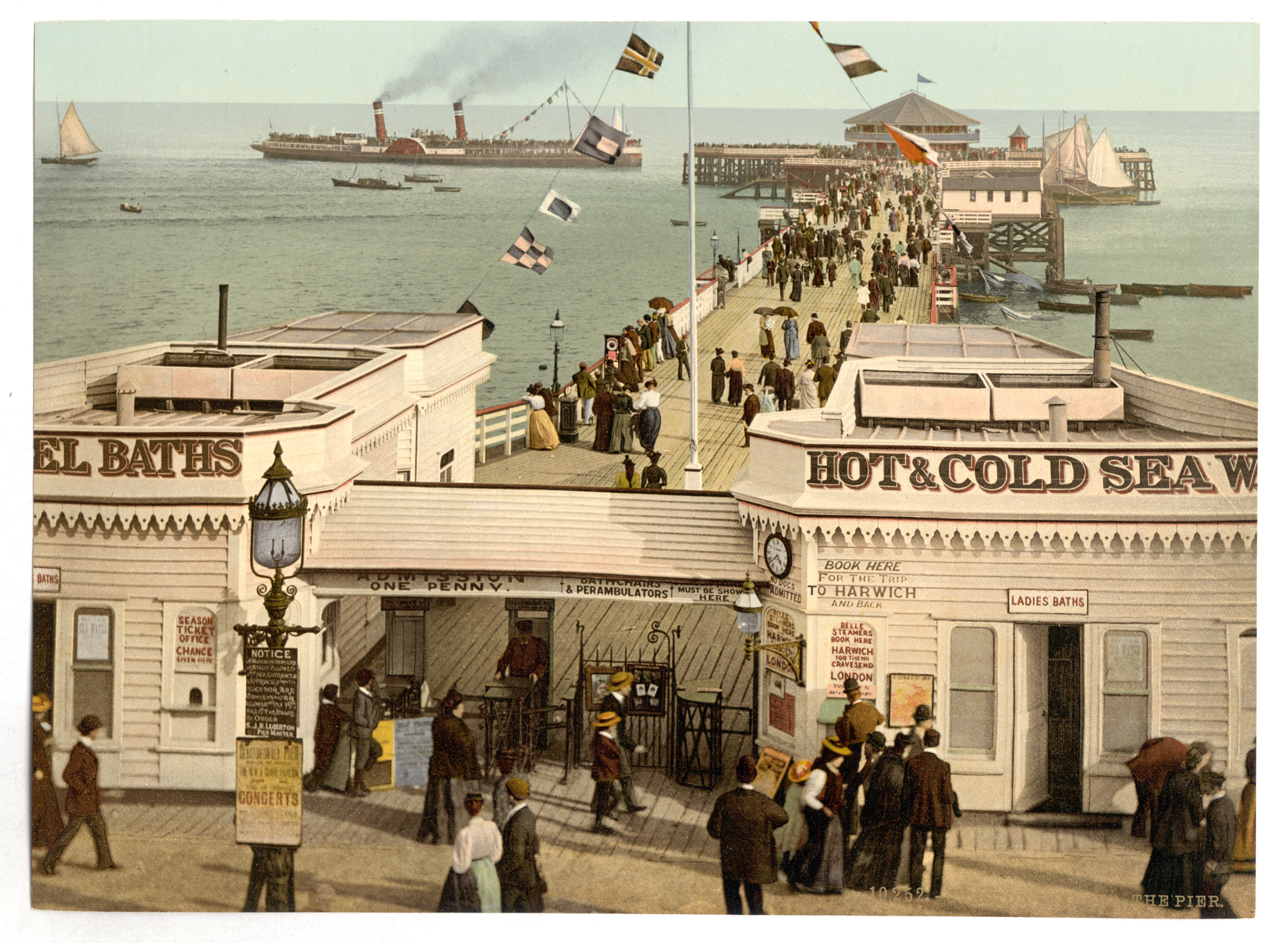 Forms part of: Views of the British Isles, in the Photochrom print collection.; Print no. "10252".; Title from the Detroit Publishing Co., Catalogue J-foreign section, Detroit, Mich. : Detroit Publishing Company, 1905.; More information about the Photochrom Print Collection is available at